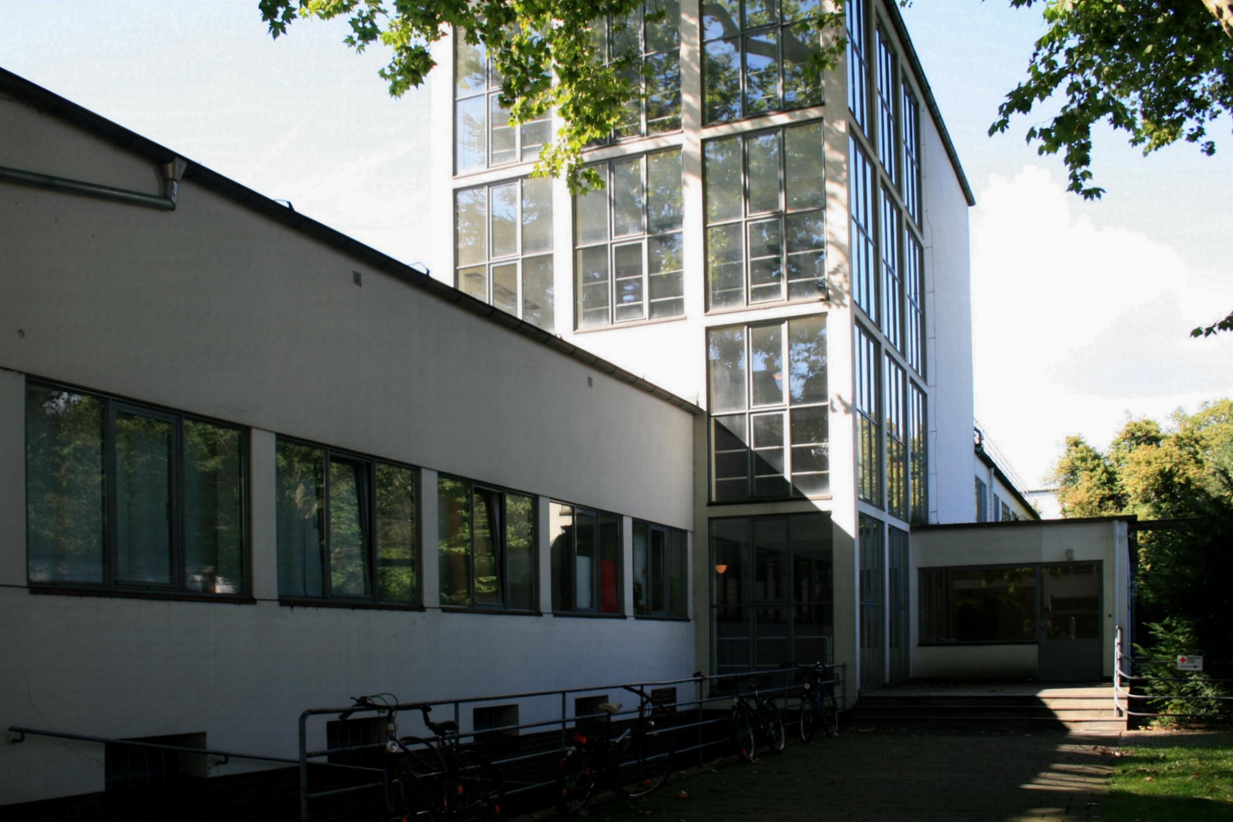 Cultural heritage monument No. W 012 in Mönchengladbach